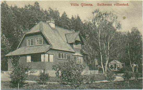 photos, sweden